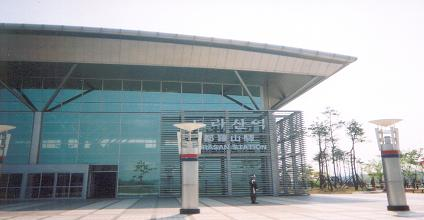 Dorasan station (Paju city,Gyeonggi-do,KOREA)